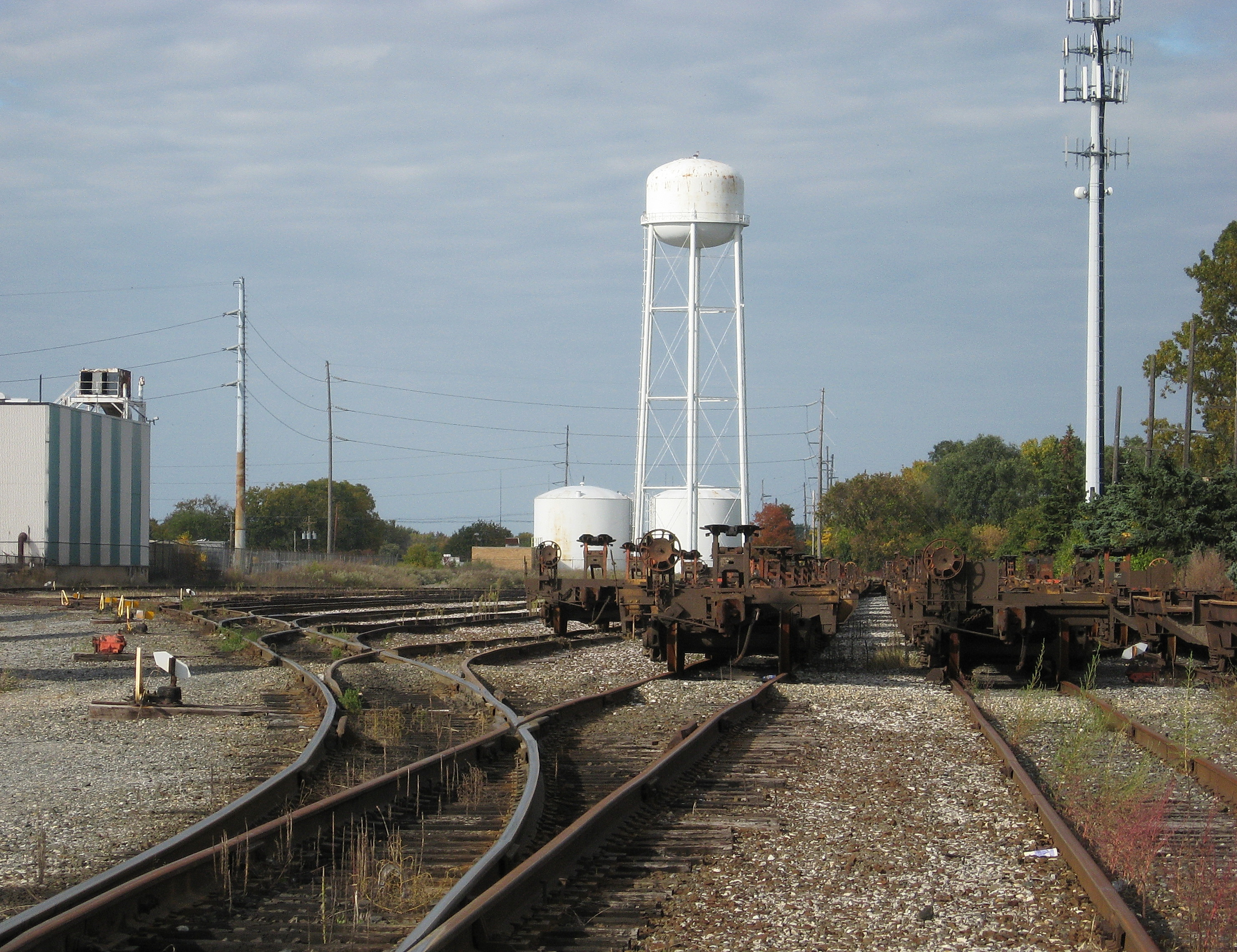 A 2008 view north into Saginaw Yard on the Lansing Manufacturers Railroad. The track at right is #263, the LMR. The track at center is #641, the first and longest of the body of the nine-track ladder. The striped structure at left is a portion of GM's Lansing Metal Center (also known as Plant No. 3), which was in the process of being demolished when this photo was taken.